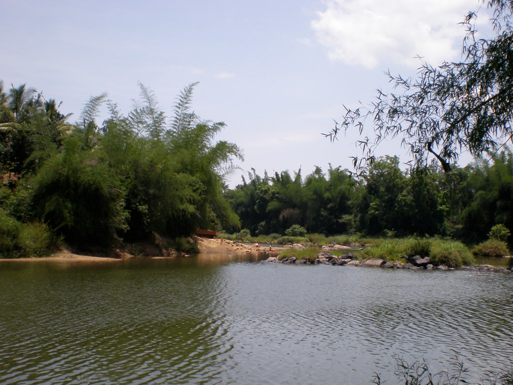 Coffee on hills of Cauvery River in Coorg